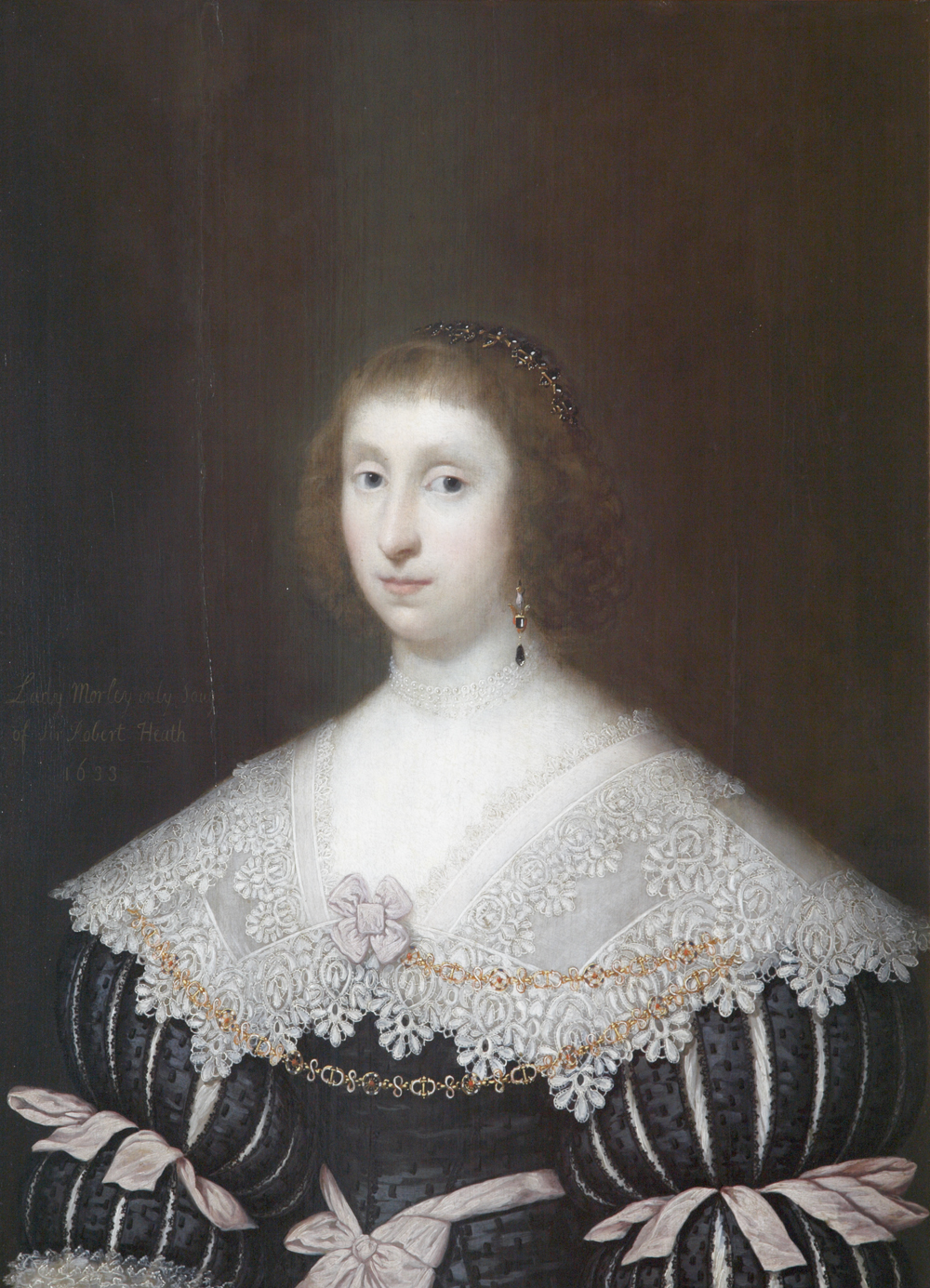 A 1631 77 x 61 cm oil-on-panel portrait painting of Mary Heath by Cornelis Janssens van Ceulen held at Killerton